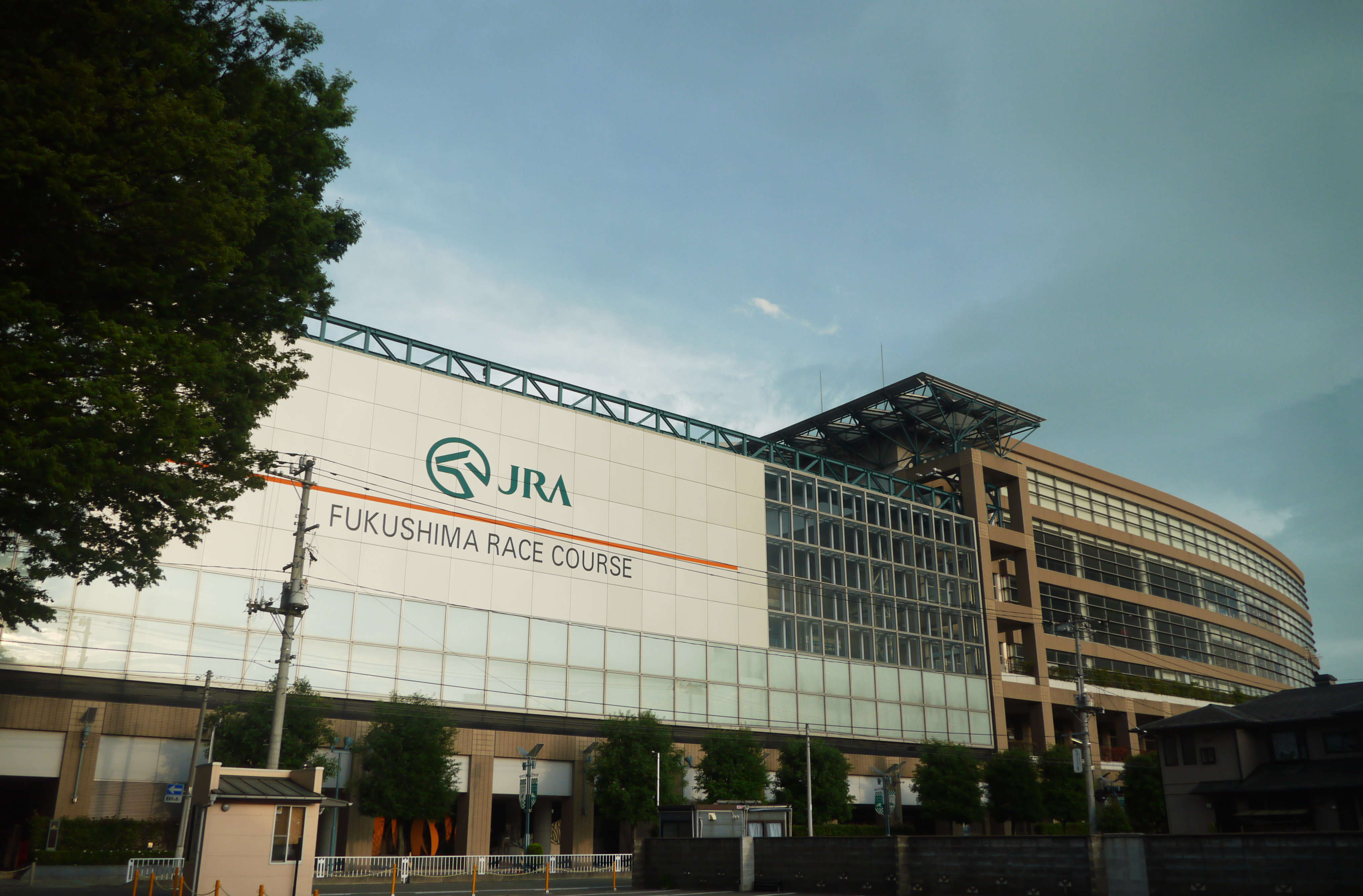 The Fukushima Racecourse in Fukushima, Fukushima, Japan viewed from the front, up close